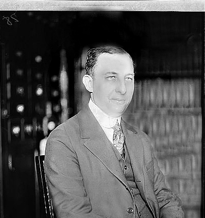 Isaac Siegel, Congressman from New York.